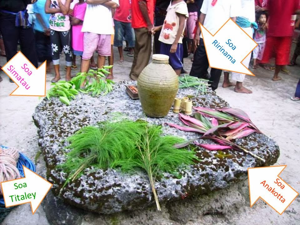 Contoh: Batu Pamali Negeri Saparua